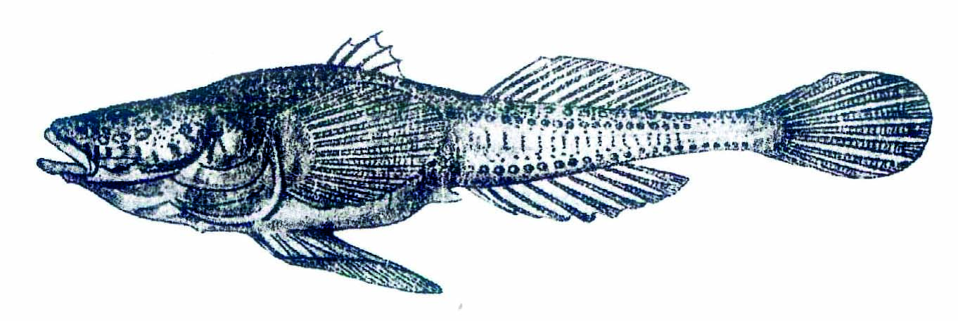 The iilustration of the Azov tadpole goby (Benthophilus magistri)